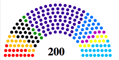 A look at the seating distribution after the Czech Election, 2017